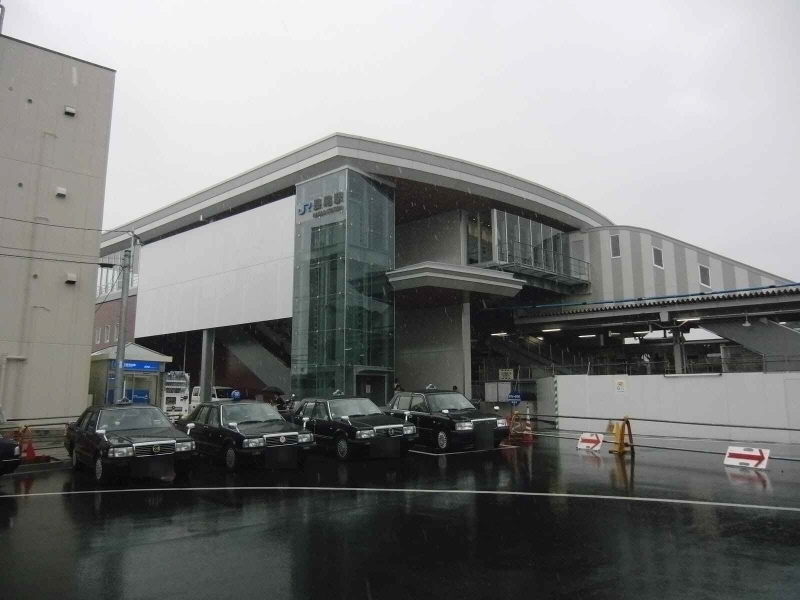 An image of Nagao Station.